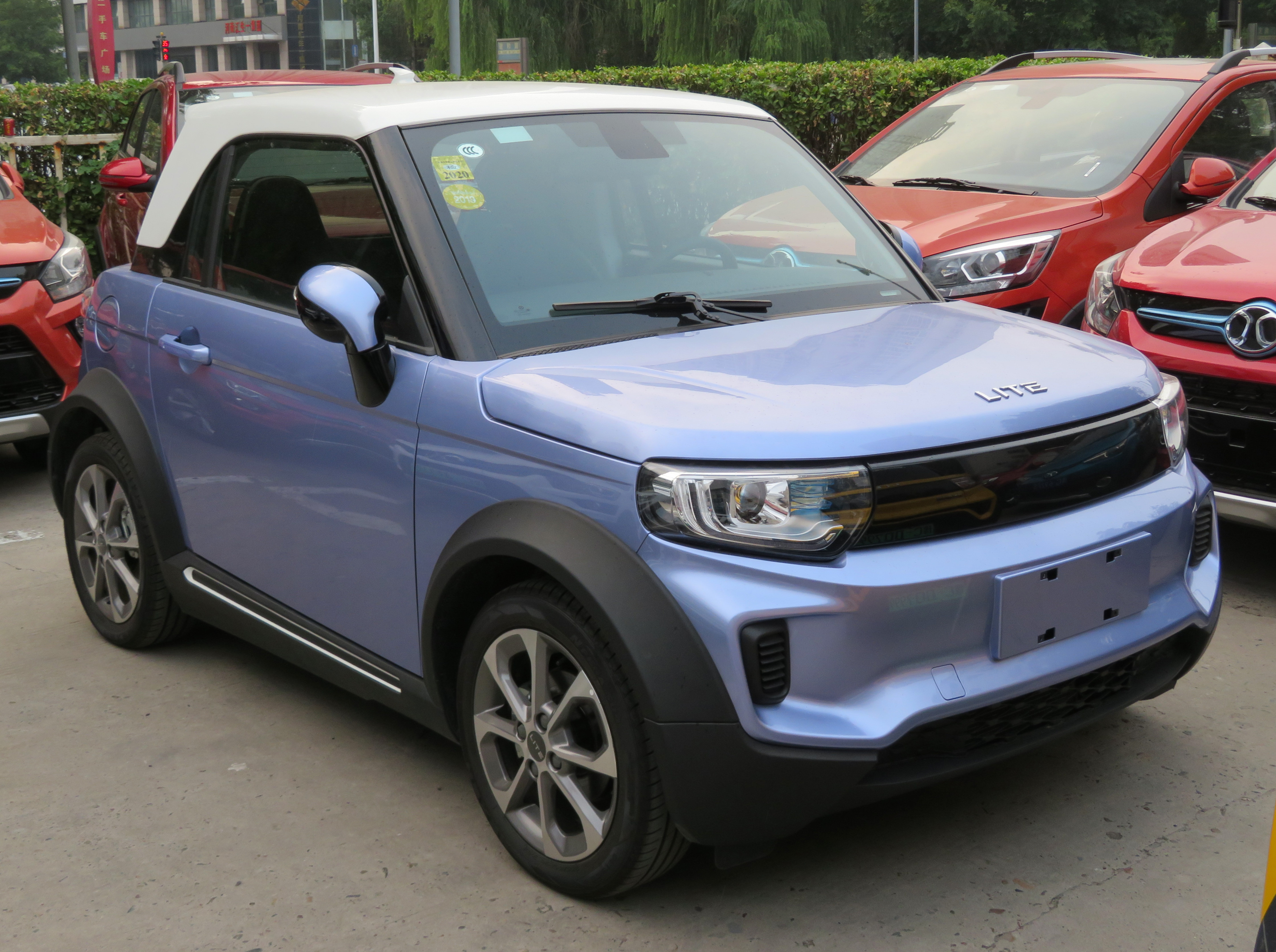 A BJEV Arcfox Lite photographed at a BAIC dealership in Luoyang, Henan province, China